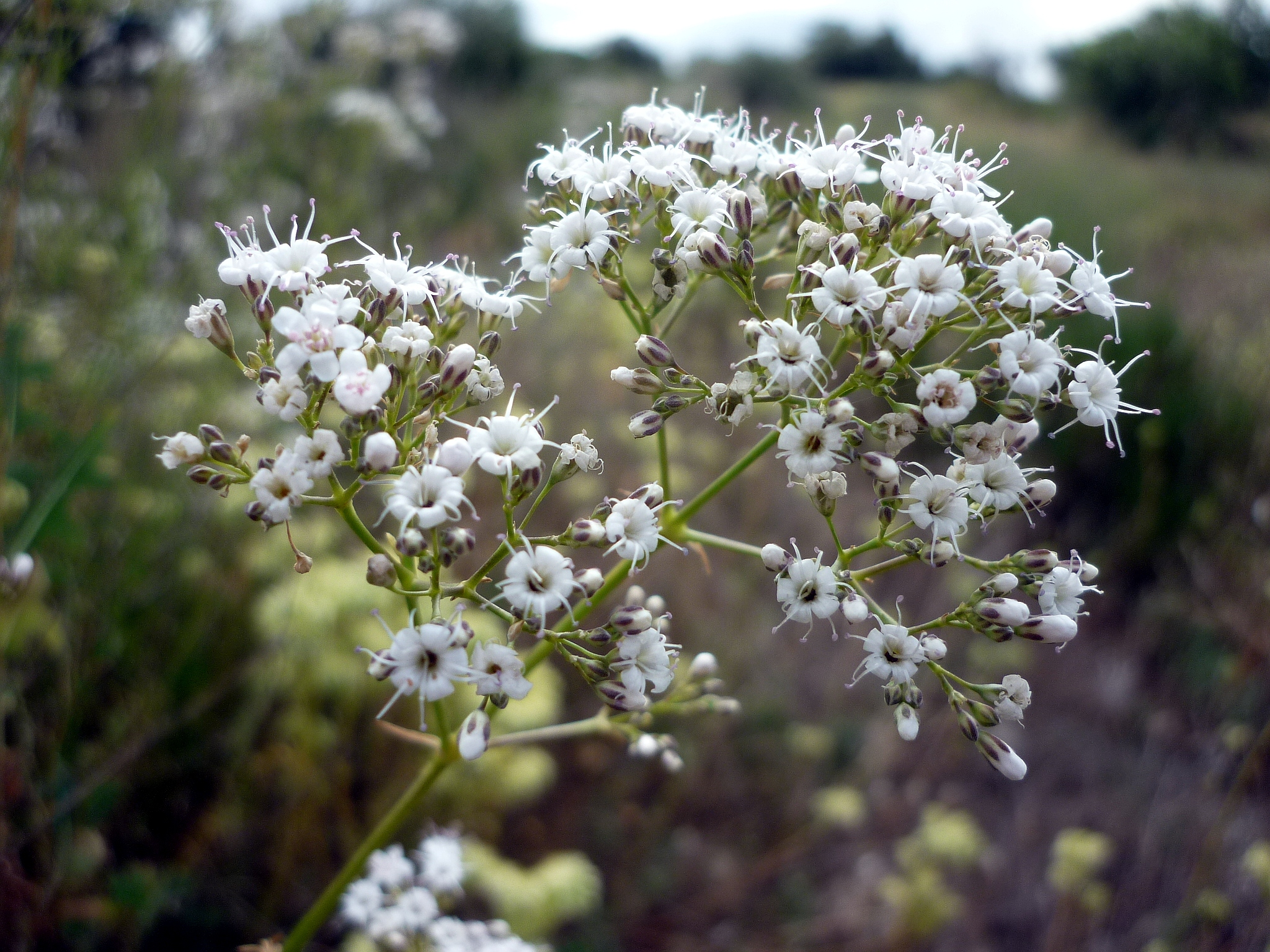 Gypsophyla struthium. In Torà (Segarra-Catalunya). To 515 m. altitude